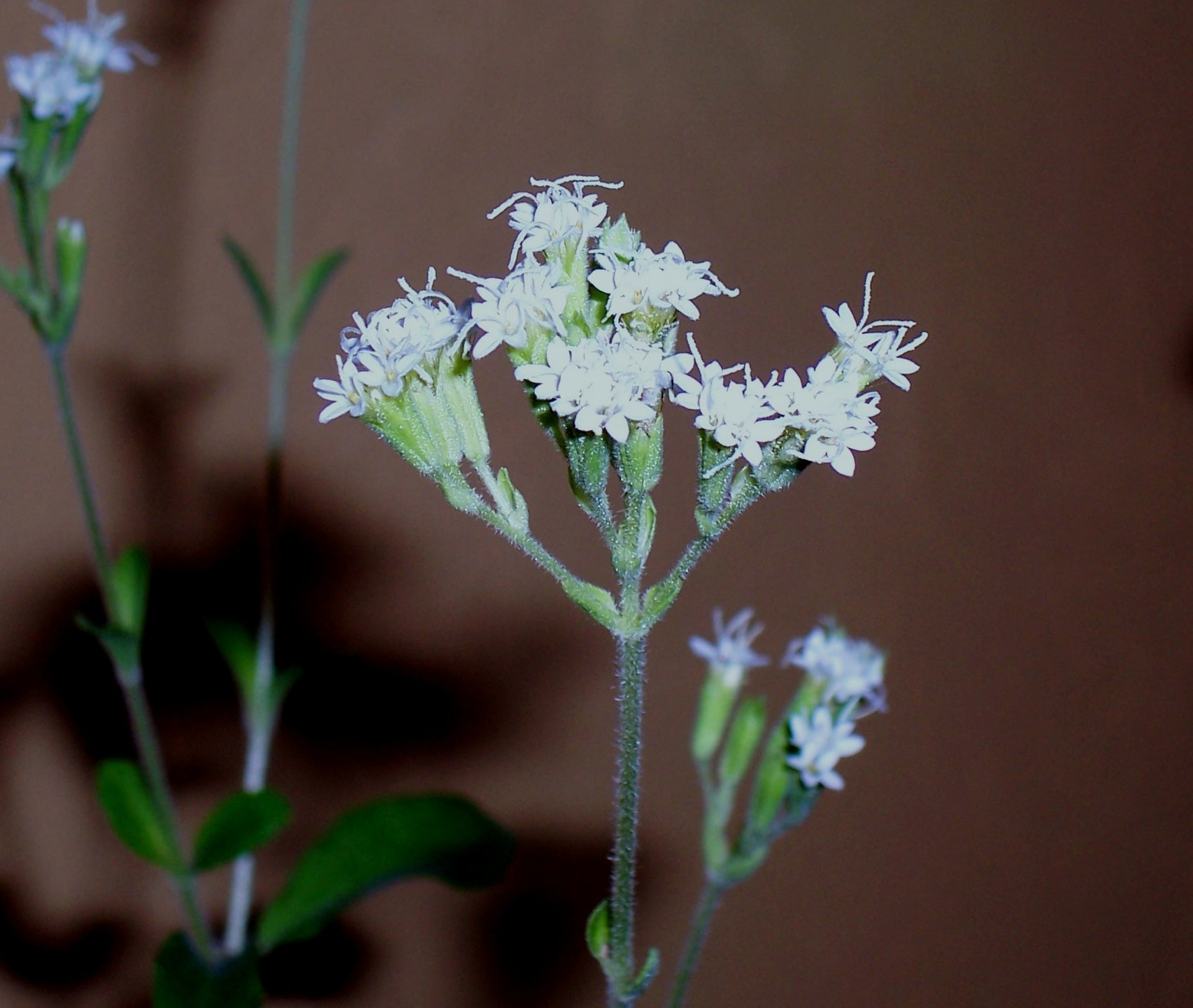 Steviablüte, blossom of stevia plant